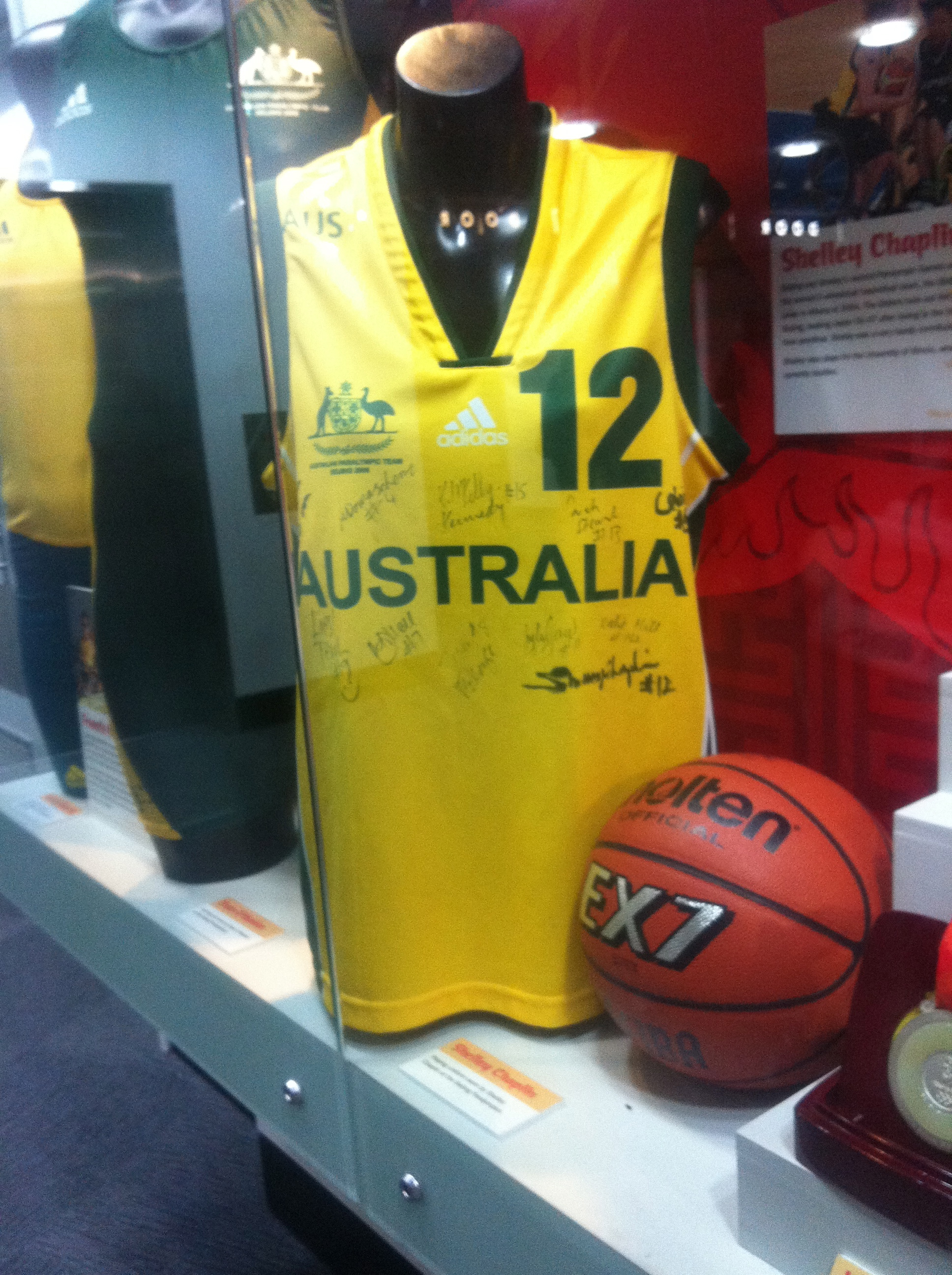 Picture taken at the Australian Institute of Sport. Shelley Chaplin.